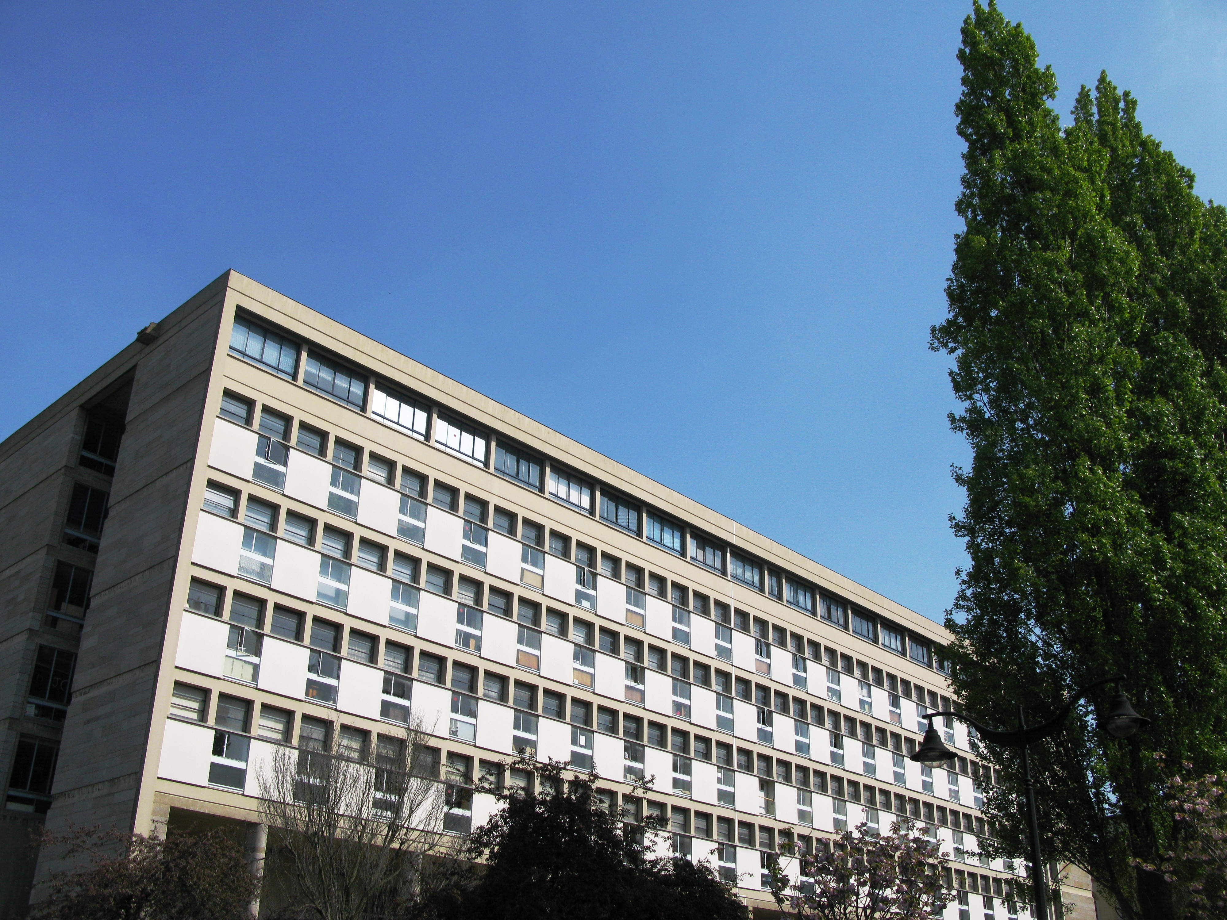 Main building of the University of Rennes 1' law school in Rennes, France.